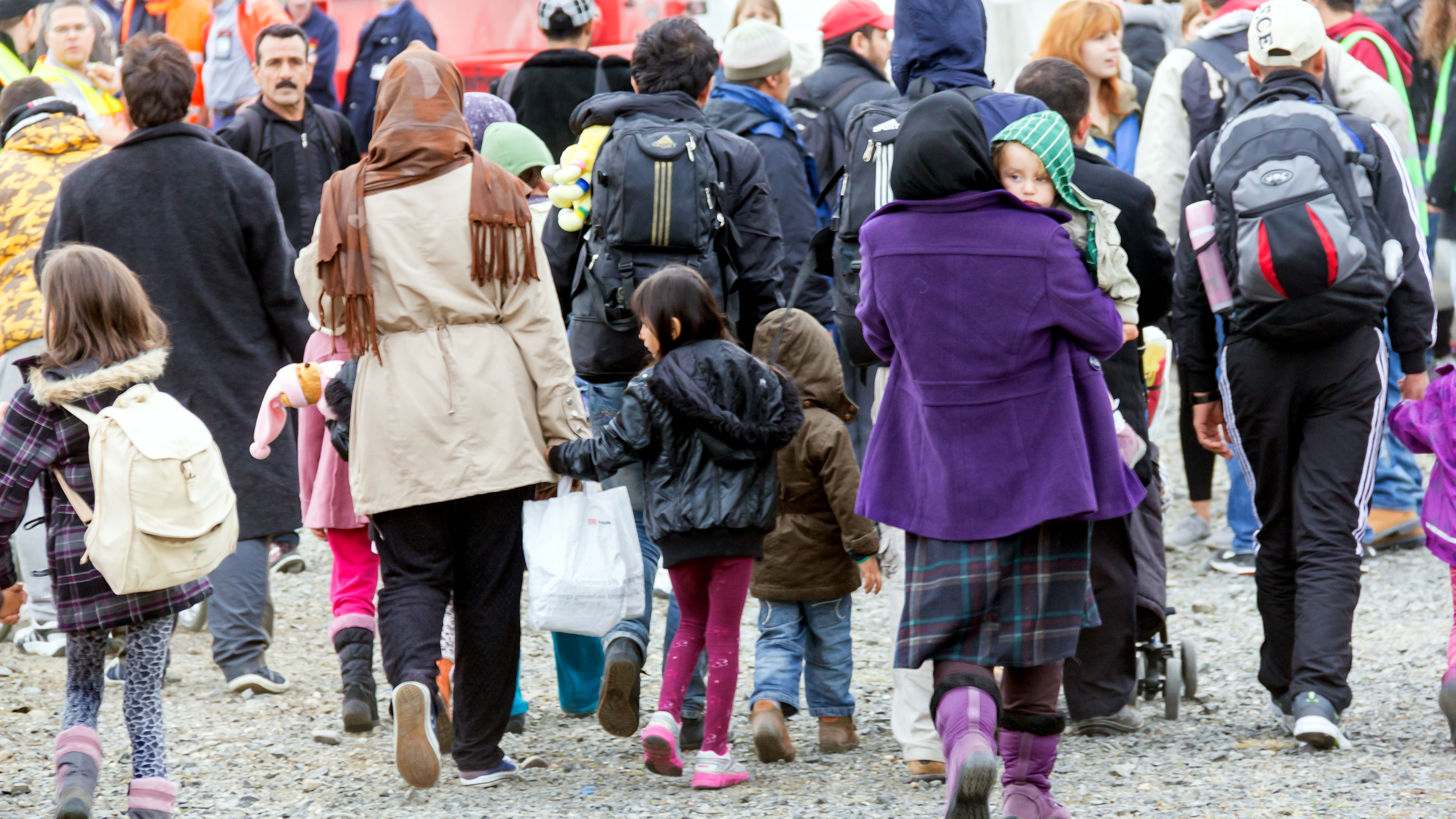 Arrival of refugees with a special train by Deutsche Bahn from the Austrian/German border at the station of Cologe/Bonn airport. In big tents on the ground the refugees can rest and eat, get new clothes and they can charge their smartphones. Medical assistance is available too. After ~ 2 hours the refugess will be transported by busses to buildings of the country of North Rhine-Westphalia